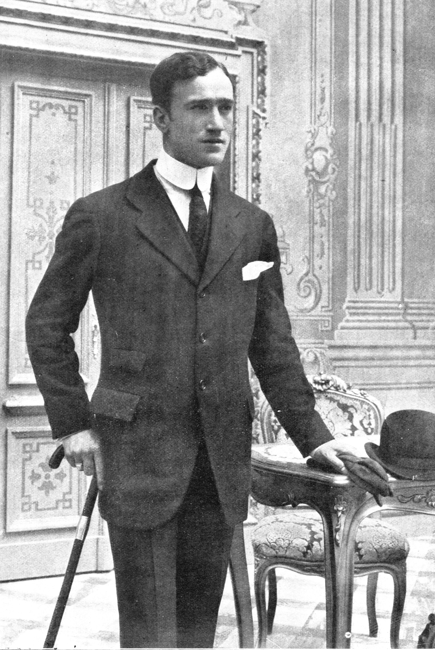 L'attore e regista Gian Paolo Rosmino in una immagine del 1914